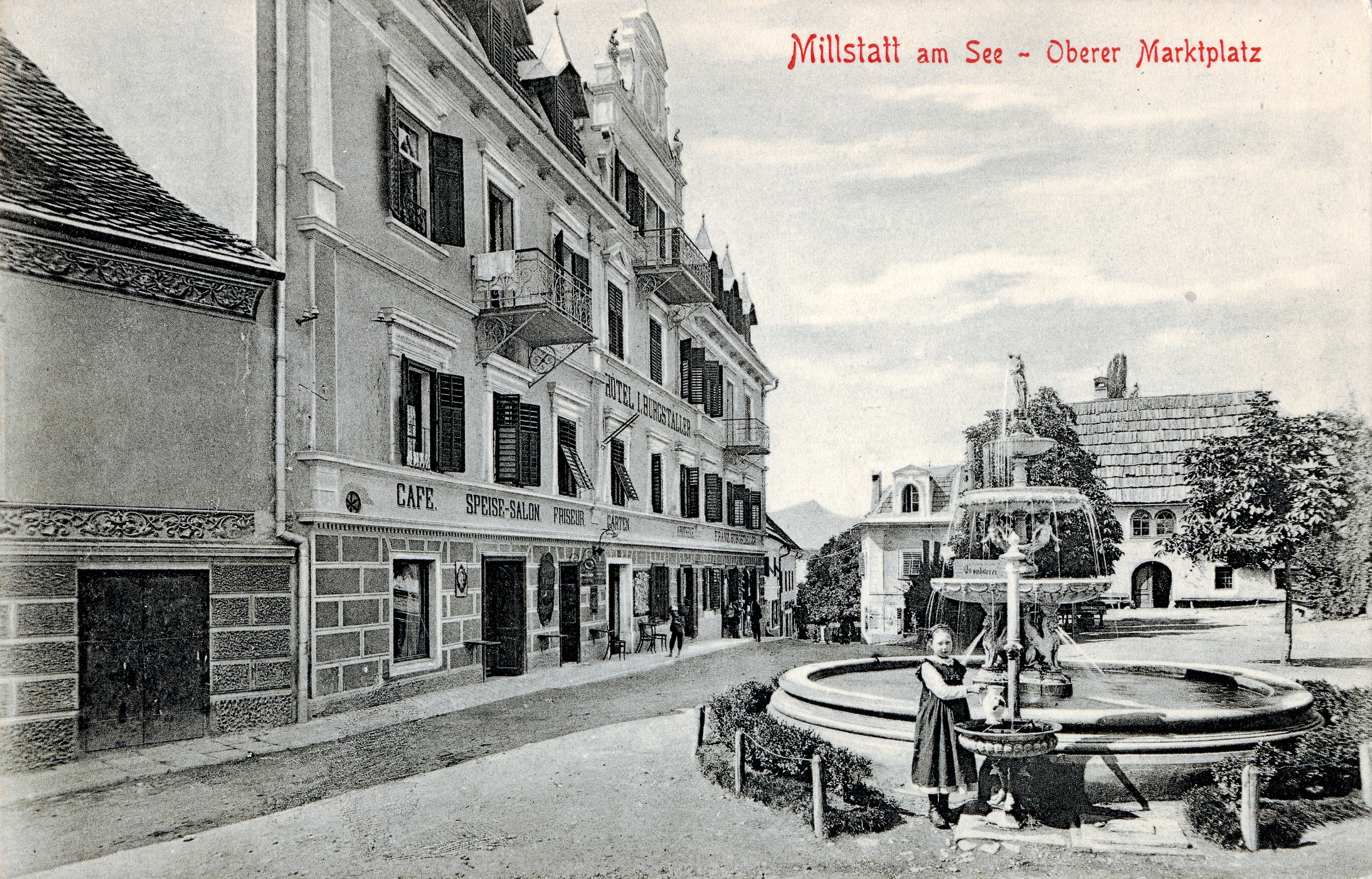 Upper market square in Millstatt district Spittal an der Drau in Carinthia / Austria / EU.